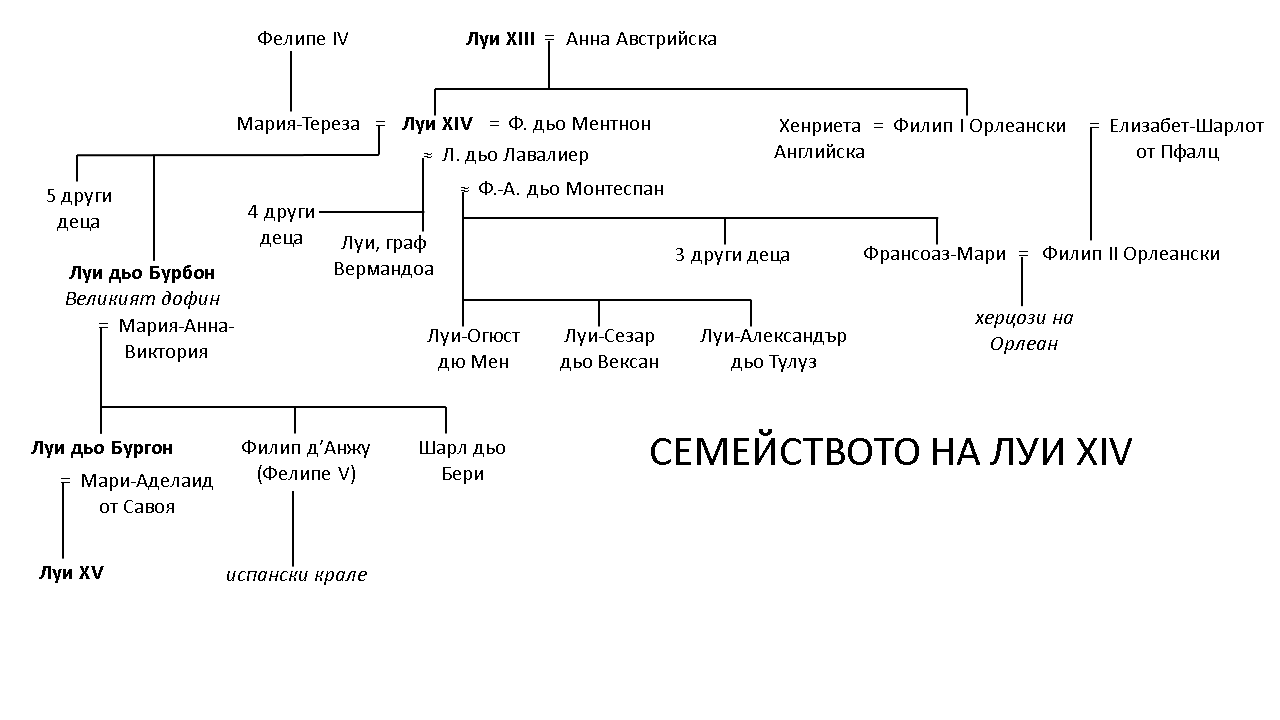 The Family of Louis XIV (Genealogical table)